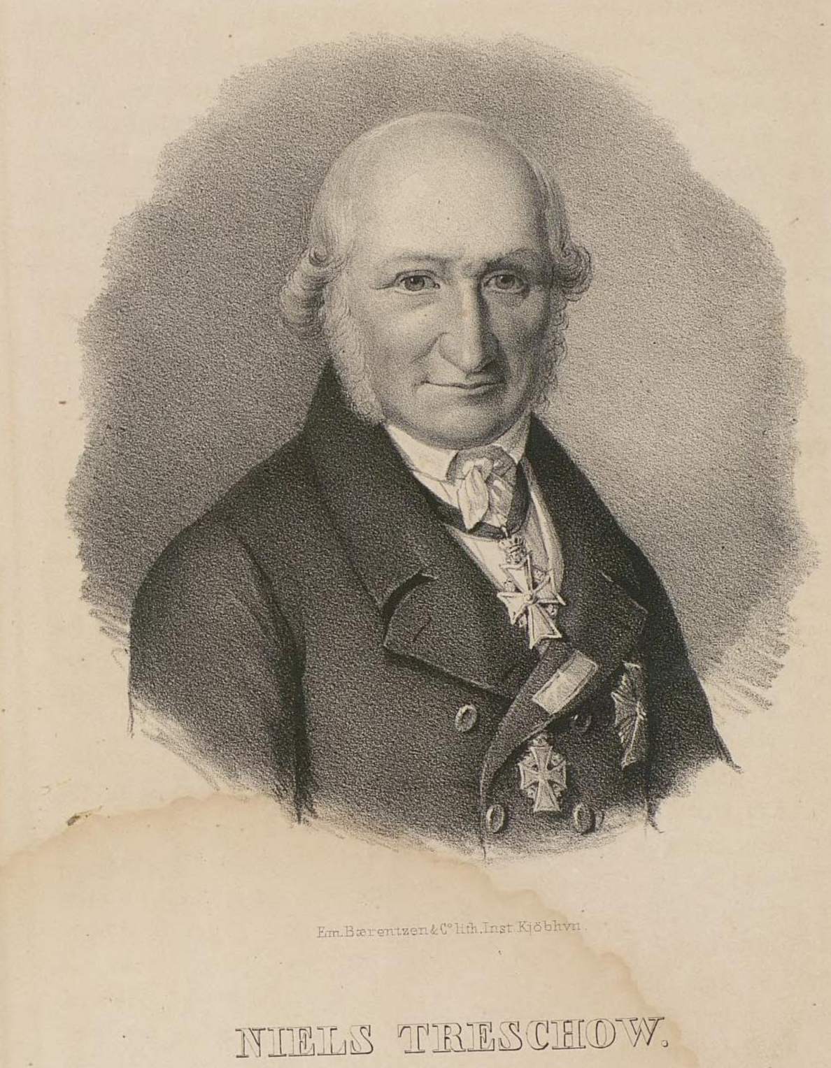 Lithograph of Niels Treschow (1751-1833), by "Em. Bærentzen & Co. Lith. Inst. i Kiøbenhavn"